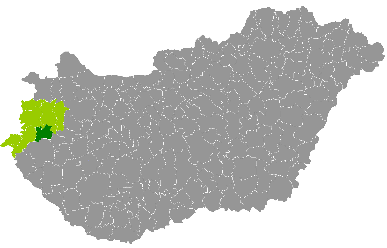 Location of Vasvári District, Vas